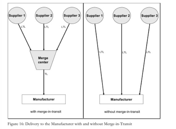 This diagrams illustrate the process of merge-in-transit.